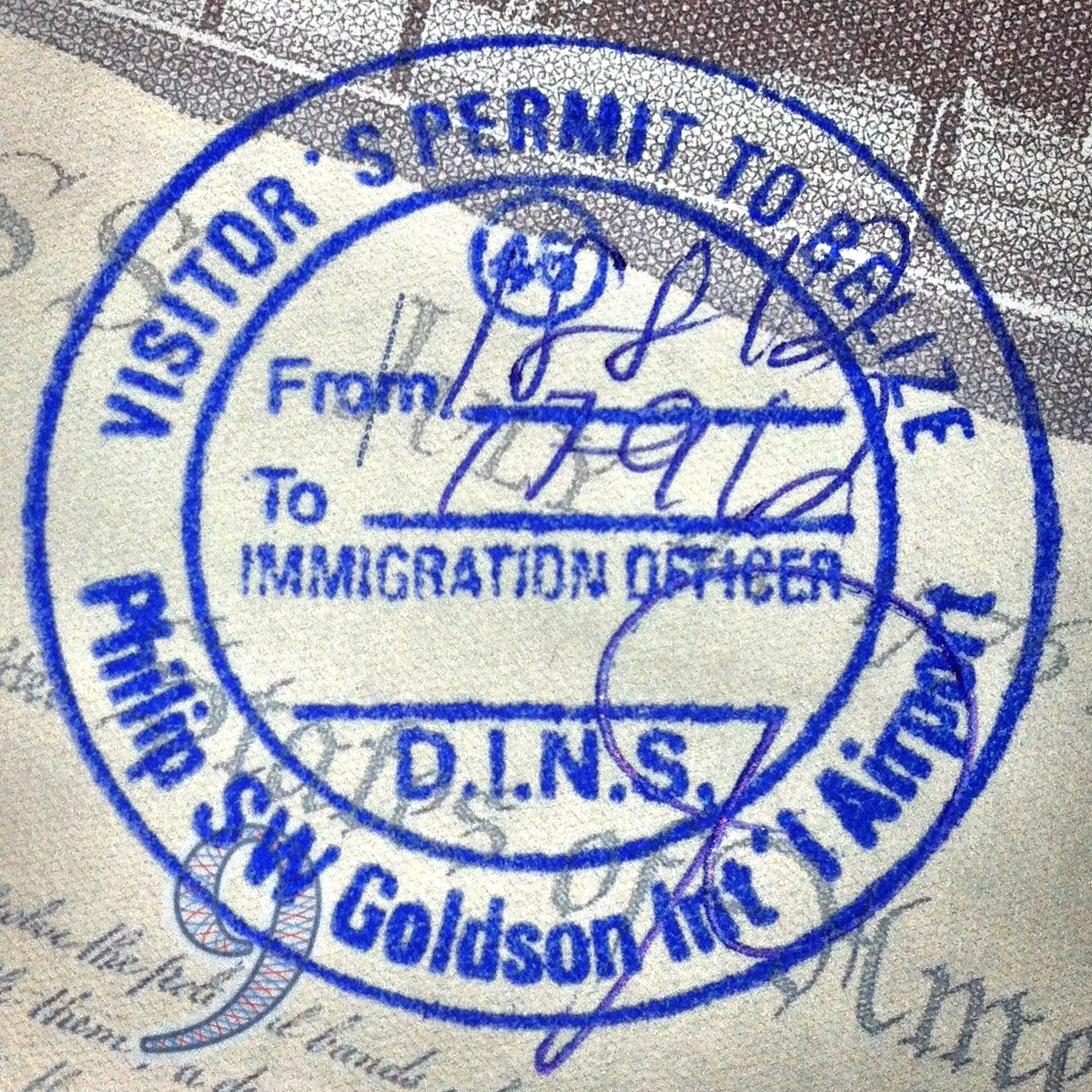 Photograph of a passport stamp granting entry to the county of Belize.